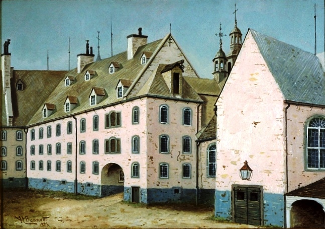 Painting, The Seminary, Quebec, Henry Richard S. Bunnett, 1886, Oil on canvas, 25.8 x 36.1 cm